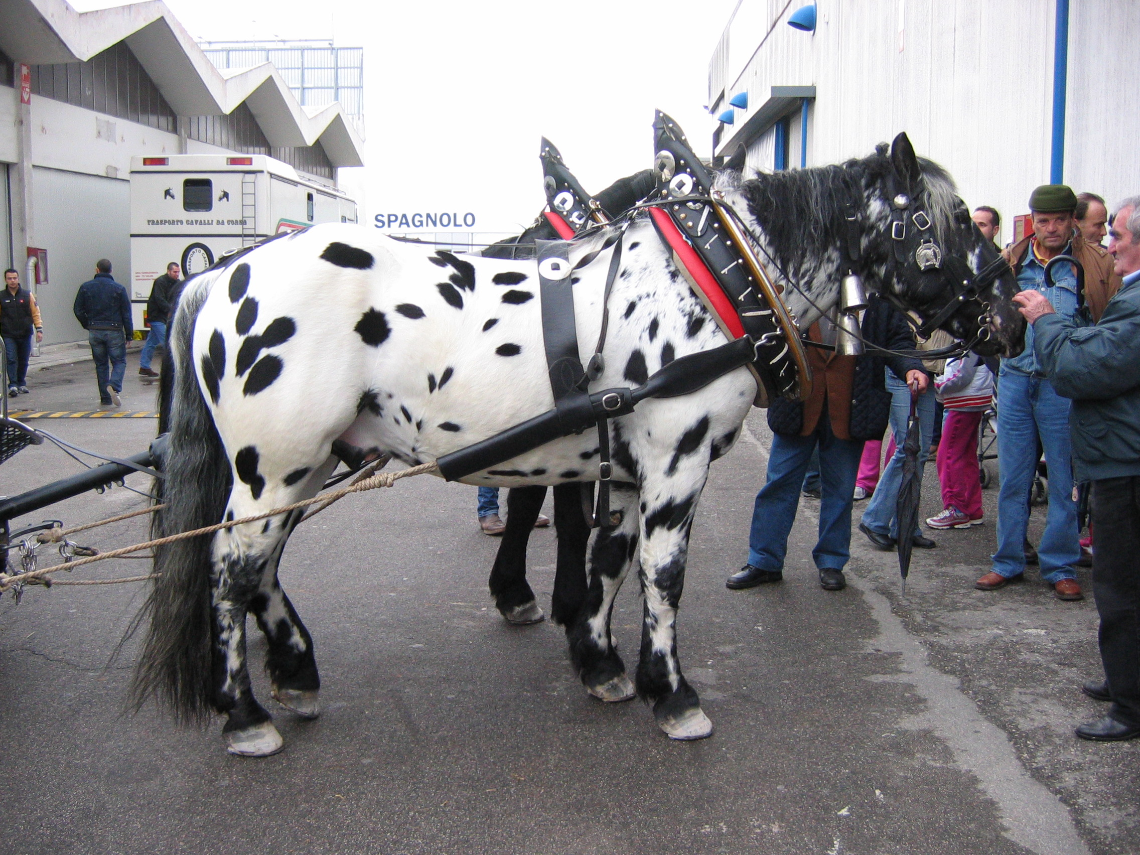 Spotted (appaloosa-colored) Austrian Noriker horse photographed at the Fieracavalli equestrian fair in Verona, Italy, on 6 November 2004.